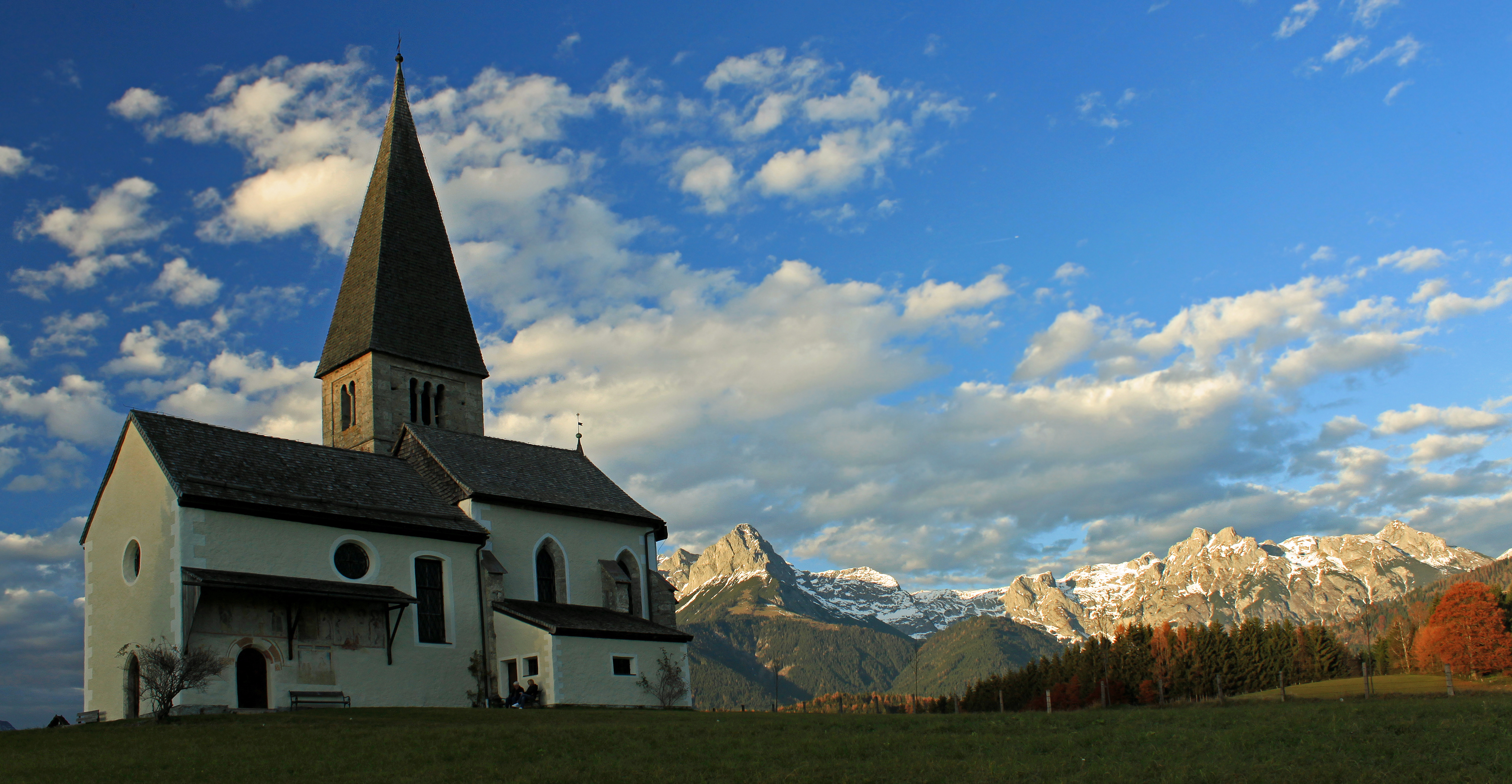 Kath. Filialkirche hll. Primus und Felizian in Buchberg